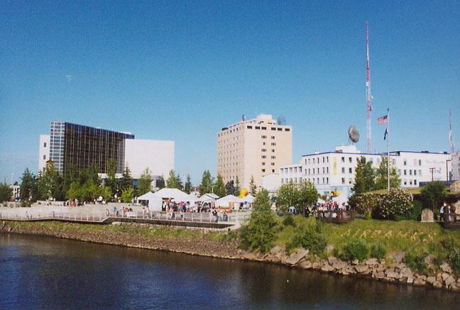 Downtown Fairbanks, Alaska in June 2003.